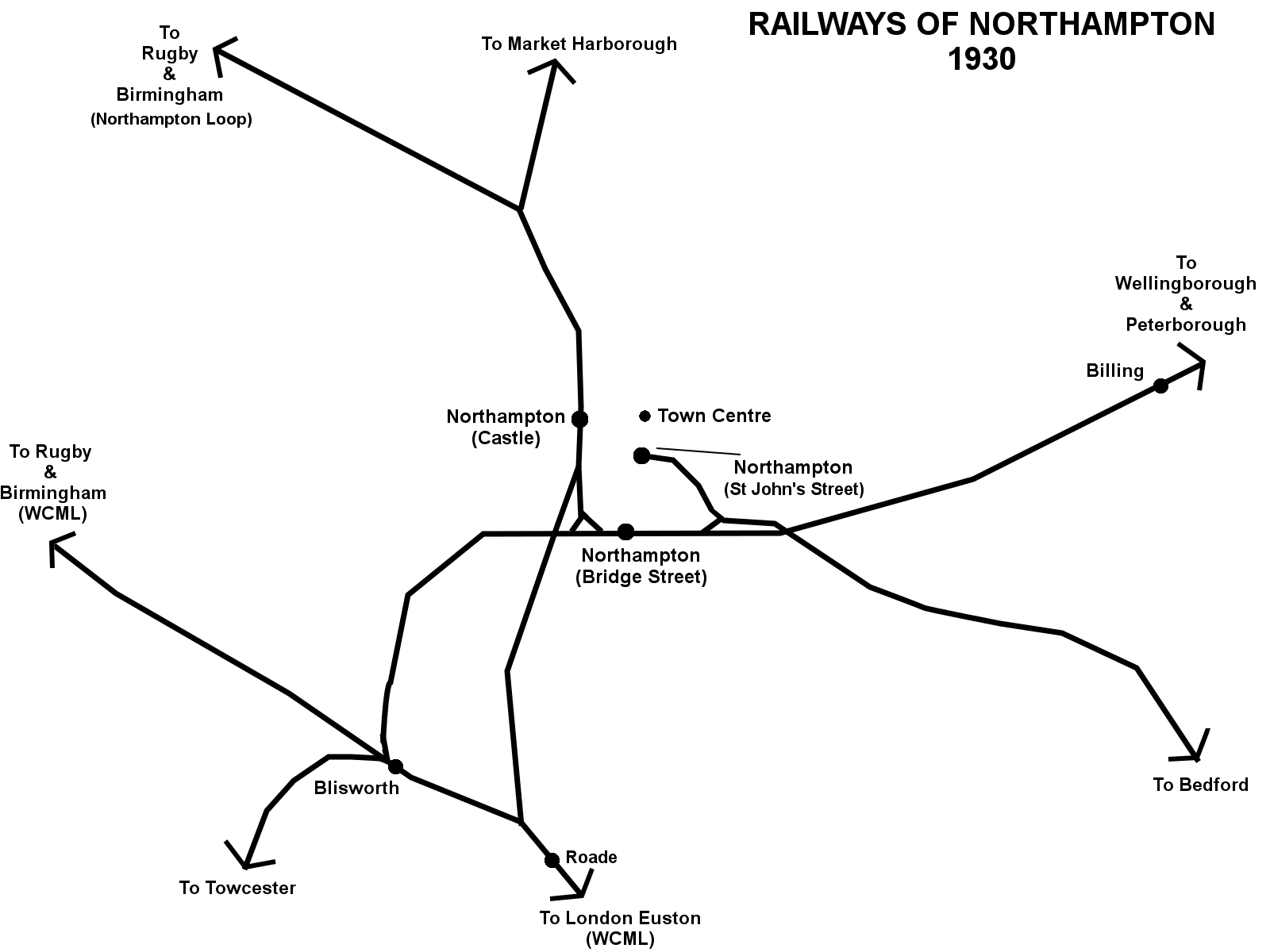 Map of the railways of Northampton and surrounding area in 1930. The 2012 book 'Railway Atlas Then and Now' by Paul Smith and Keith Turner was used as a reference.